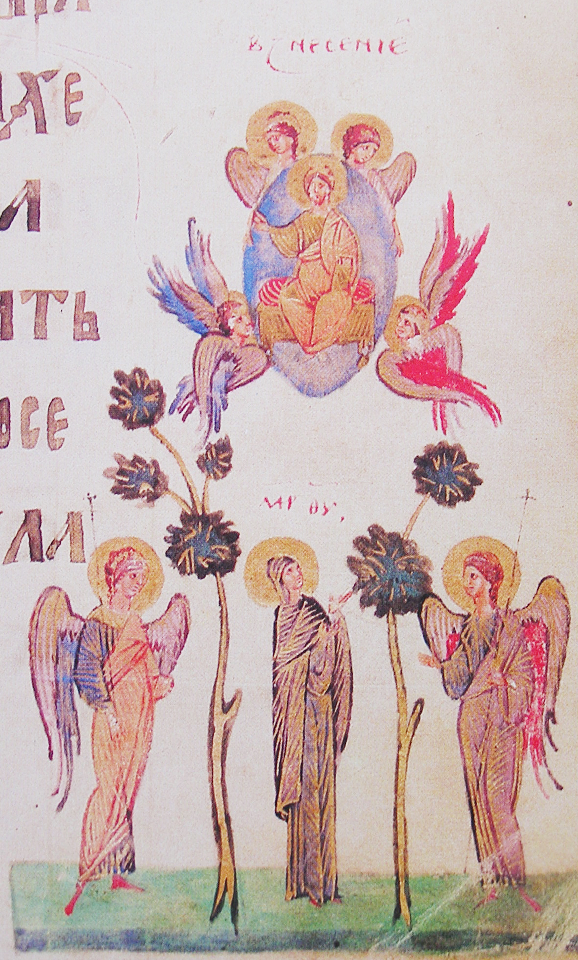 Kievan Psalter